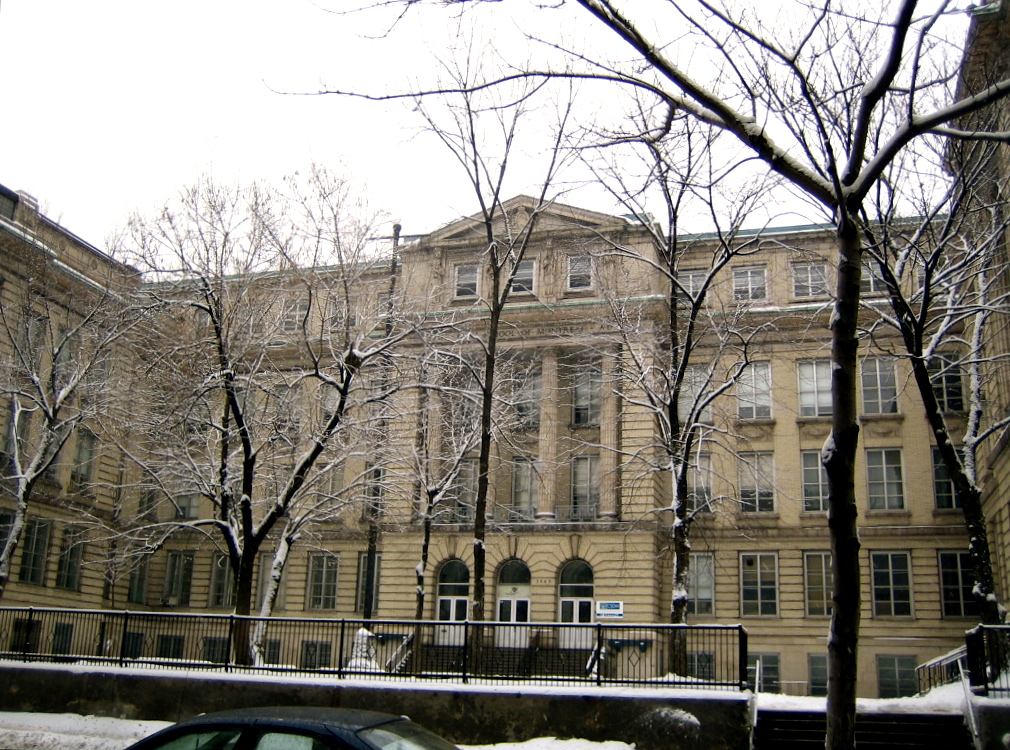 F.A.C.E. School (in English, Fine Arts Core Education and in French, Formation Artistique au Coeur de l'Éducation) is a bilingual pre-kindergarten, kindergarten, elementary and high school in Montreal, Quebec, Canada. It is run jointly by the English Montreal School Board and the Commission Scolaire de Montréal (CSDM). Built 1914-1924 for High School of Montreal (closed 1979). Photo by uploader.